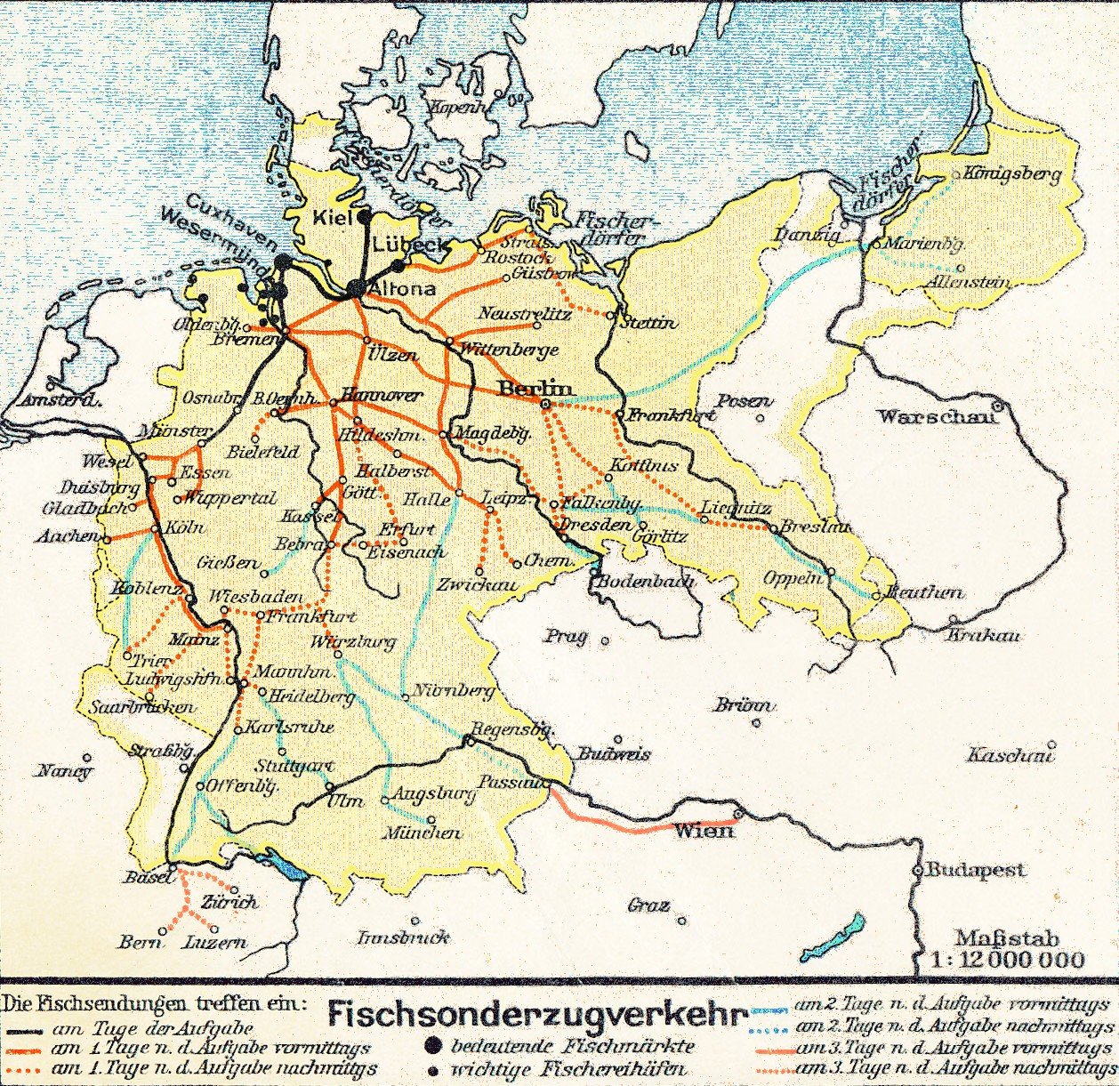 Germany, special trains for fish (transport duration: black = same day, red solid = next day forenoon, red dotted = next day afternoon, blue solid = second day forenoon, blue dotted = second day afternoon, orange solid = third day forenoon, orange dotted = third day afternoon, ⬤ fish market, ⚫ fish harbour)